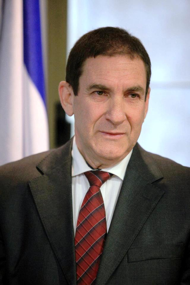 Yiftah Ron-Tal 2013